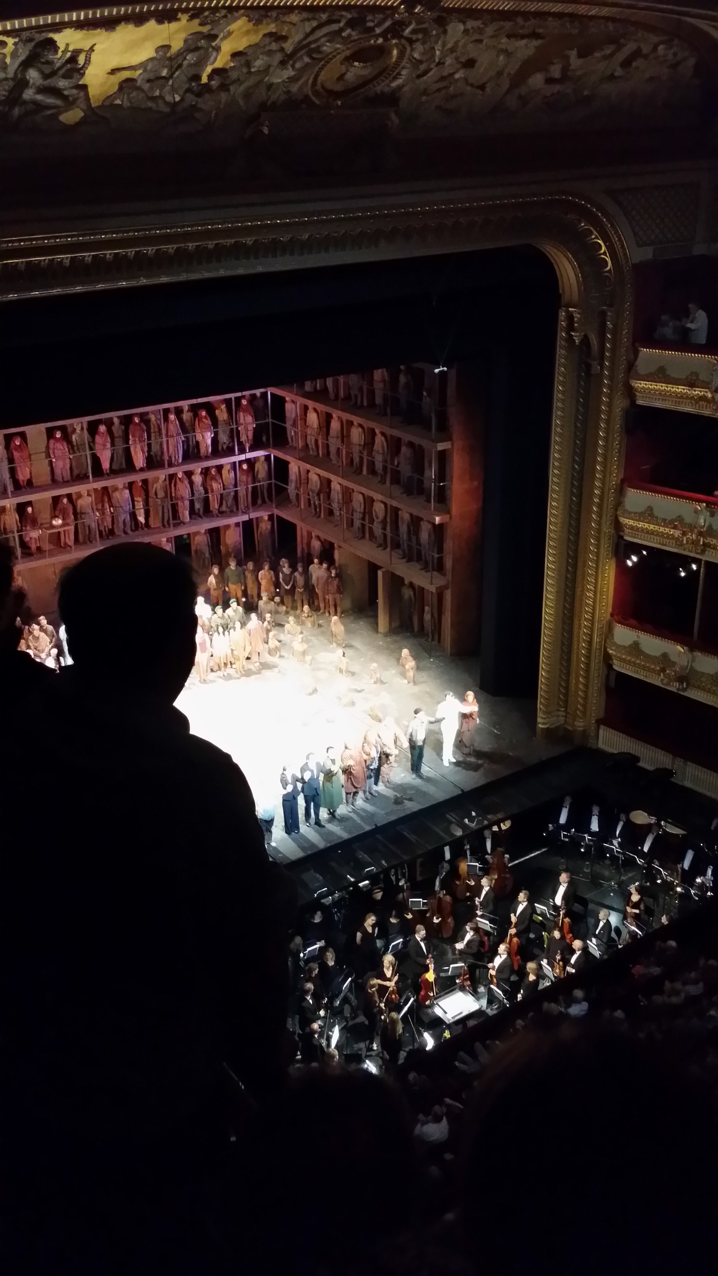 George Enescu's opera Œdipe at Royal Opera House in London – standing ovations (24 May 2016)